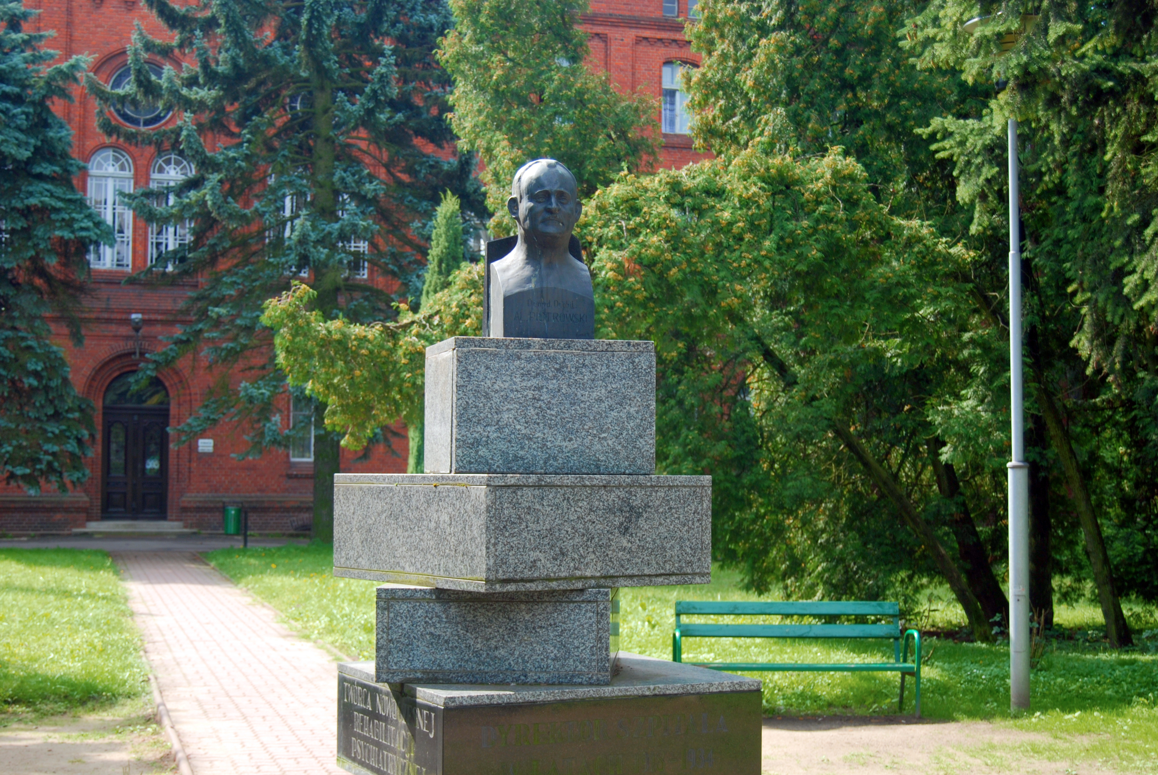 Monument of Aleksander Piotrowski.